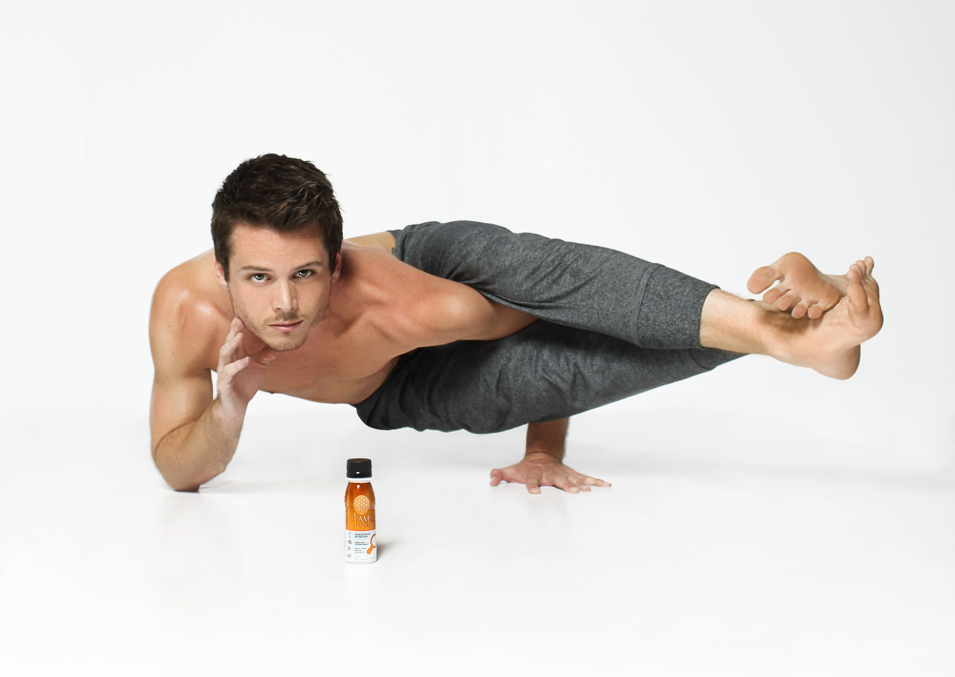 Drew Osborne Yoga